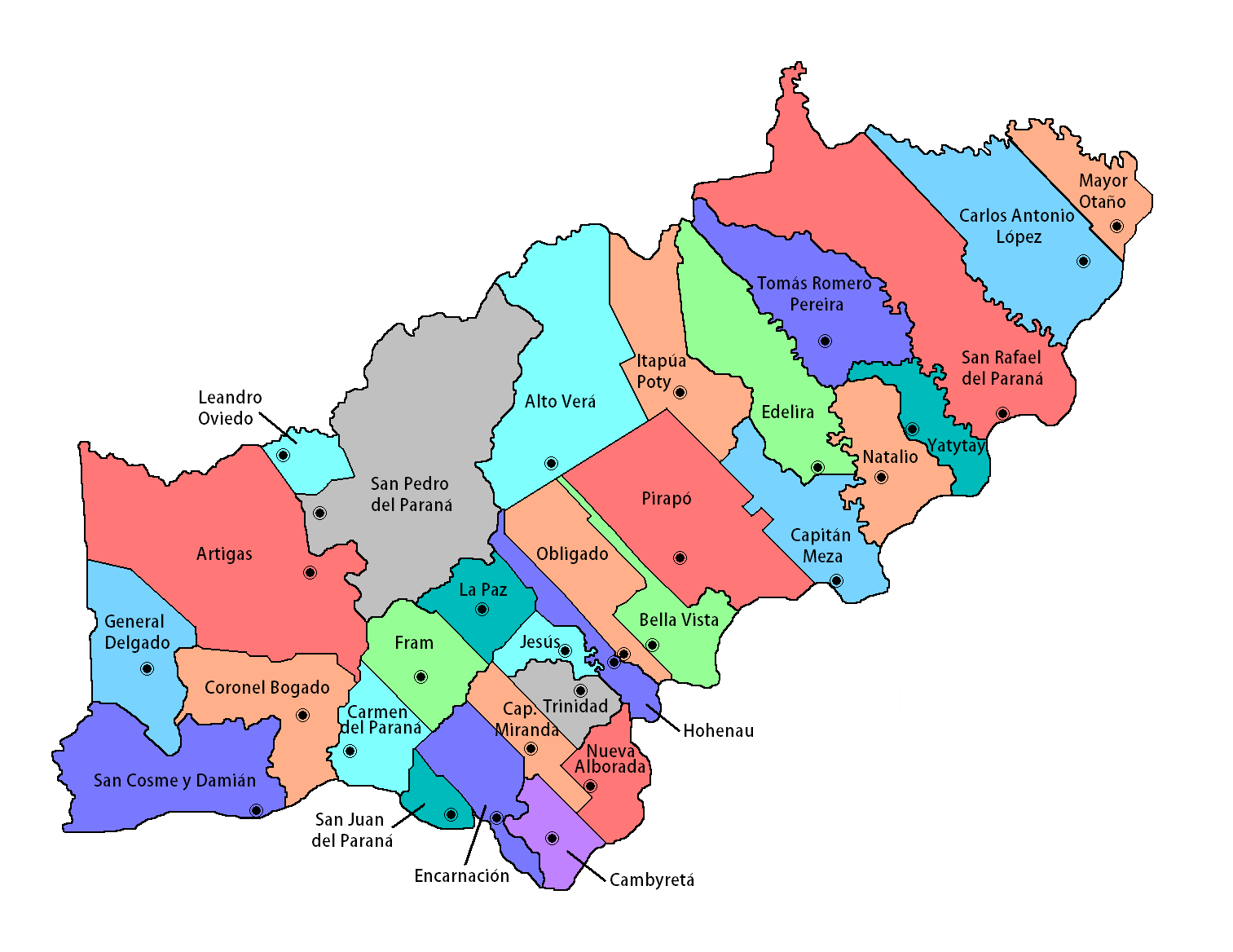 Administrative division of the Itapúa Department, Paraguay